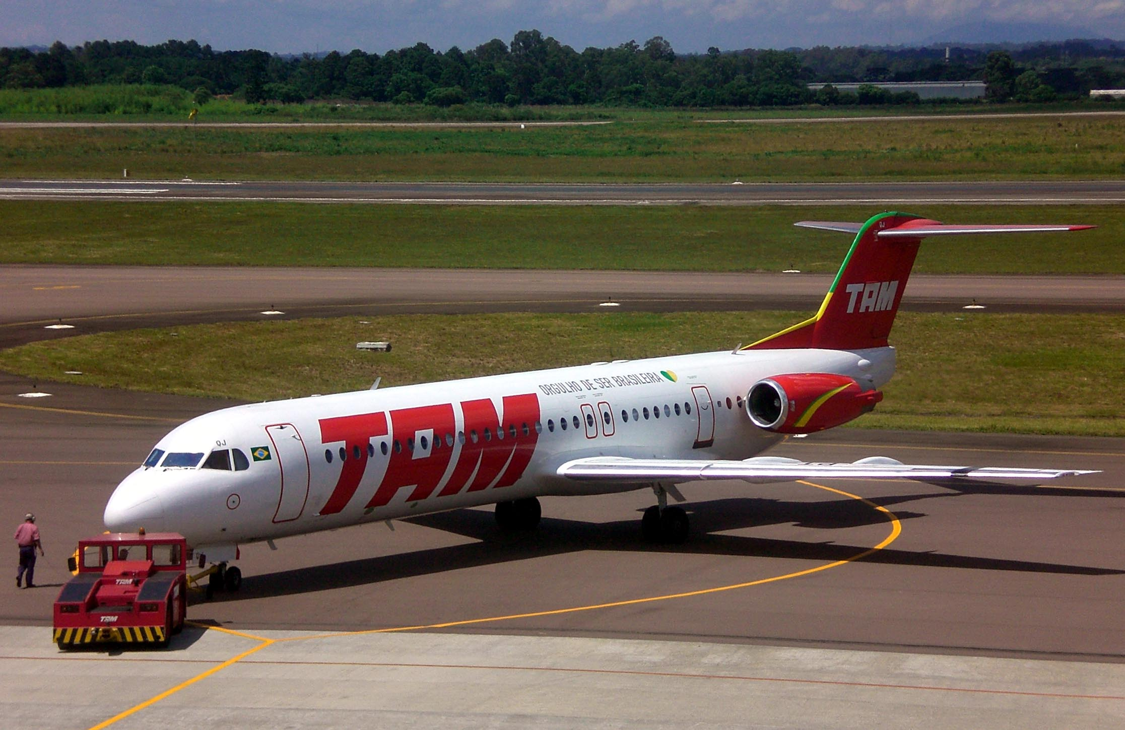 TAM Linhas Aéreas, a Fokker F100, at the Afonso Pena International Airport